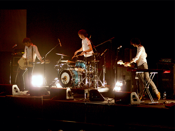 Evermore supporting Split Enz, Rod Laver Arena, Melbourne Australia, 13th June 2006